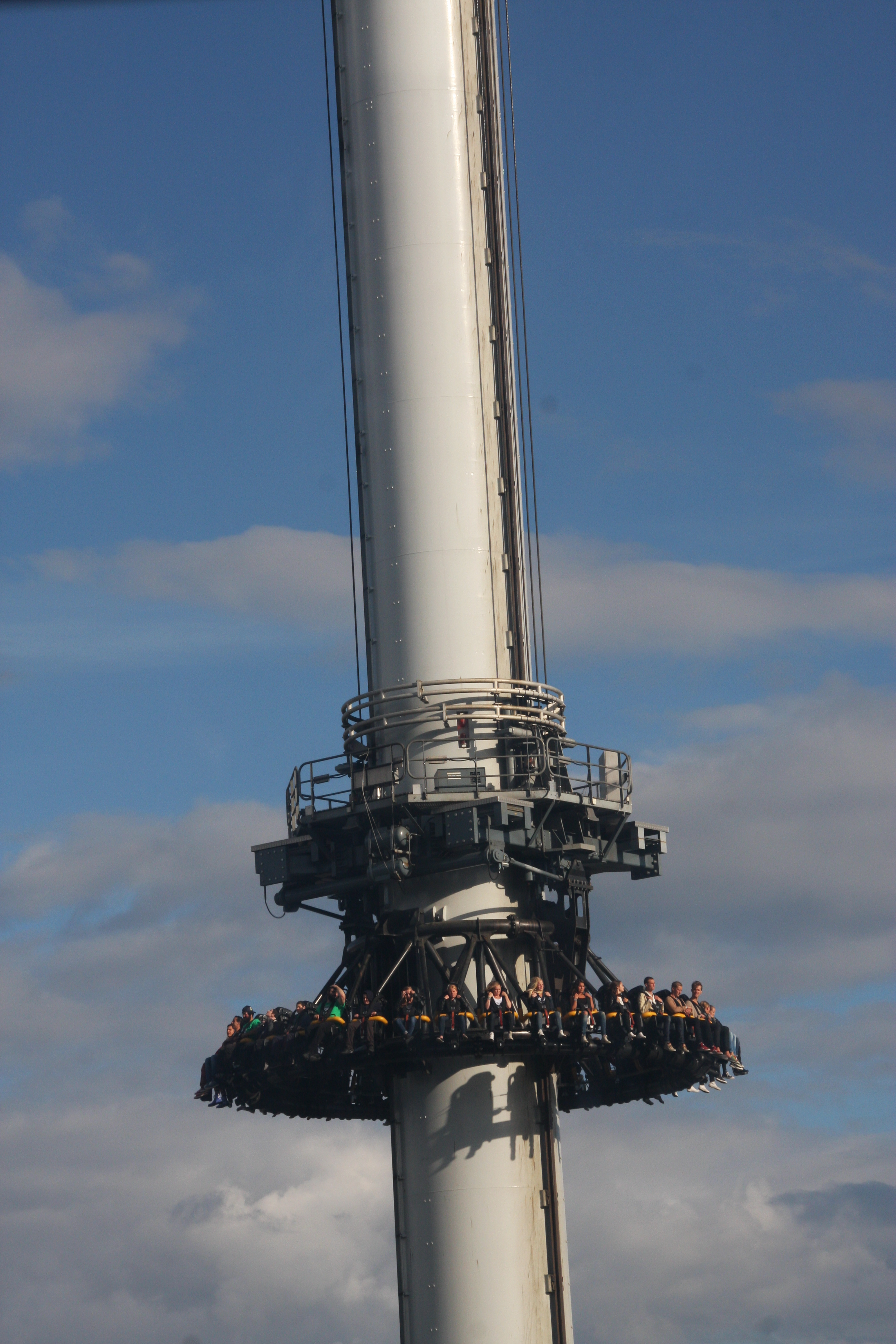 Liseberg amusement park, Gothenburg (Sweden).